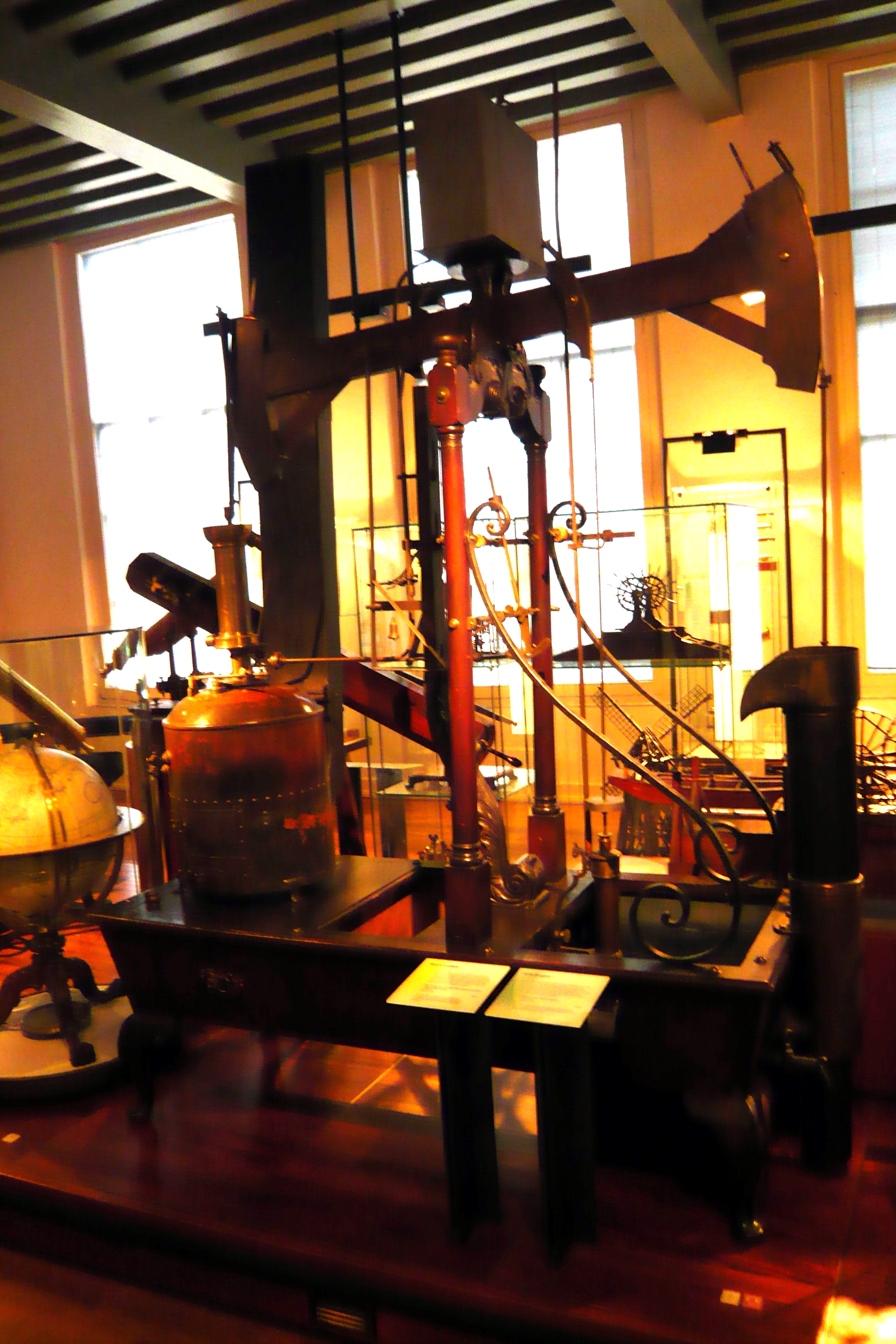 Demonstration model of a fire engine (vuurmachine) built by Jan Paauw, instrument maker for the professors of Leiden University, in 1774. Was used in physics classes for decades. Originally commissioned by Jean Allemand, the successor to Petrus van Musschenbroek, this demonstration model is based on the atmospheric steam engine developed by Newcomen in 1712. Now on display with other contemporary physics demonstration models in the Boerhaave Museum of Leiden, the Netherlands. This model demonstrates the use of steam technology to raise water, and was probably the inspiration for the fire engine built in nearby Heemstede in 1781.